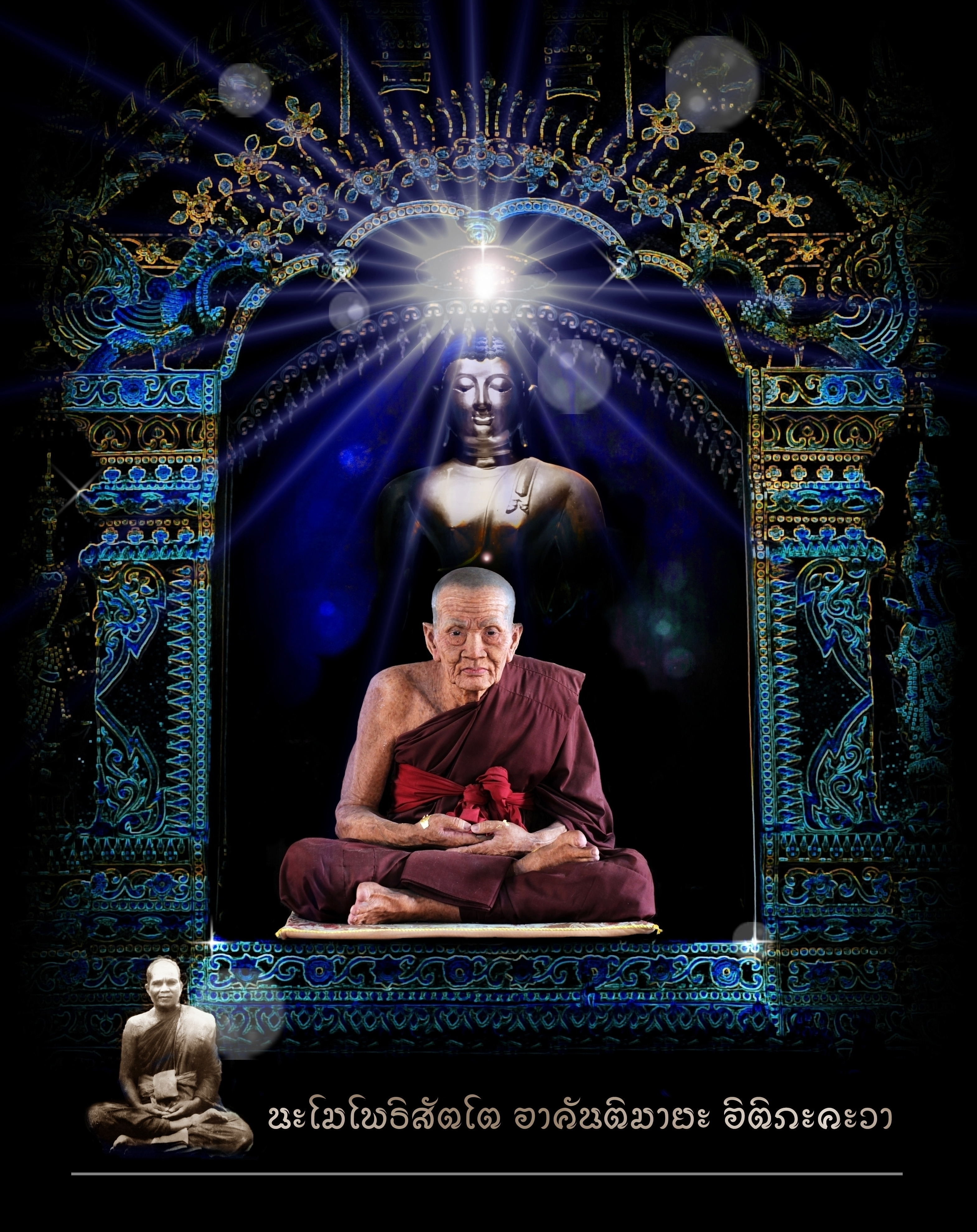 หลวงปู่ทวดวัดพระสิงห์